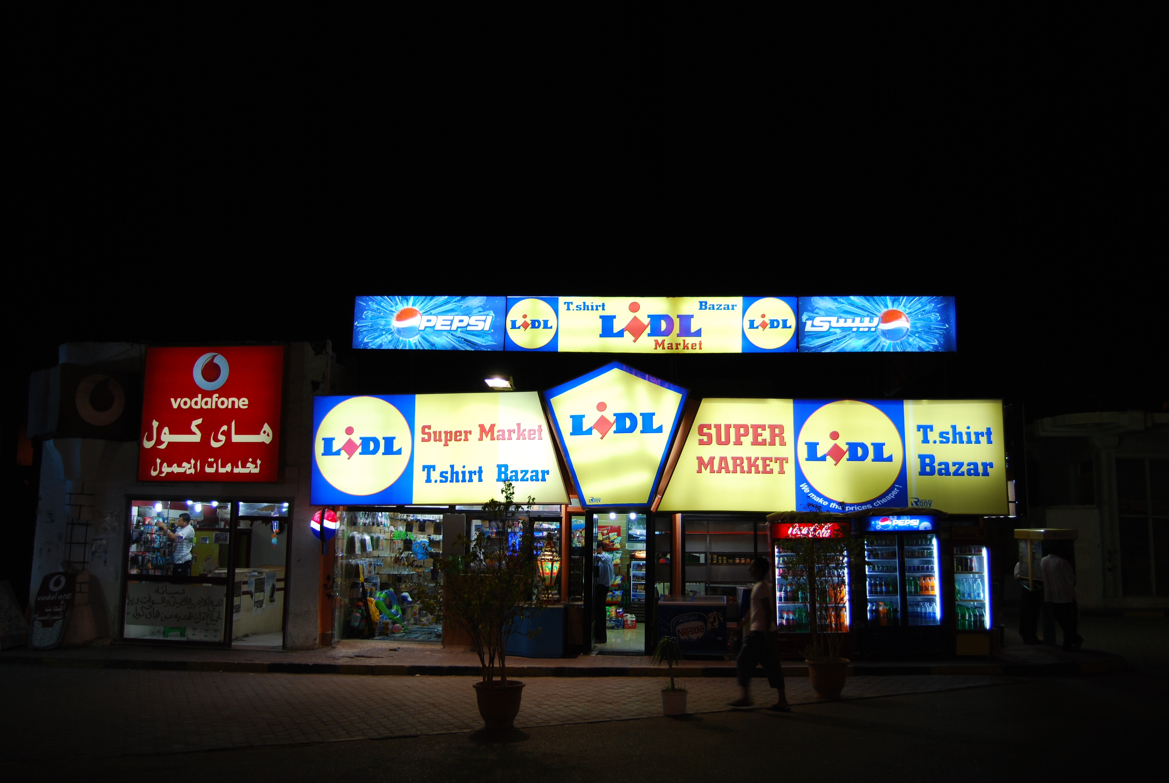 A fake Lidl store in Hurghada, Egypt